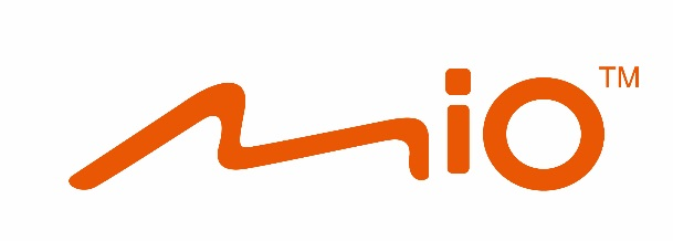 mio logo